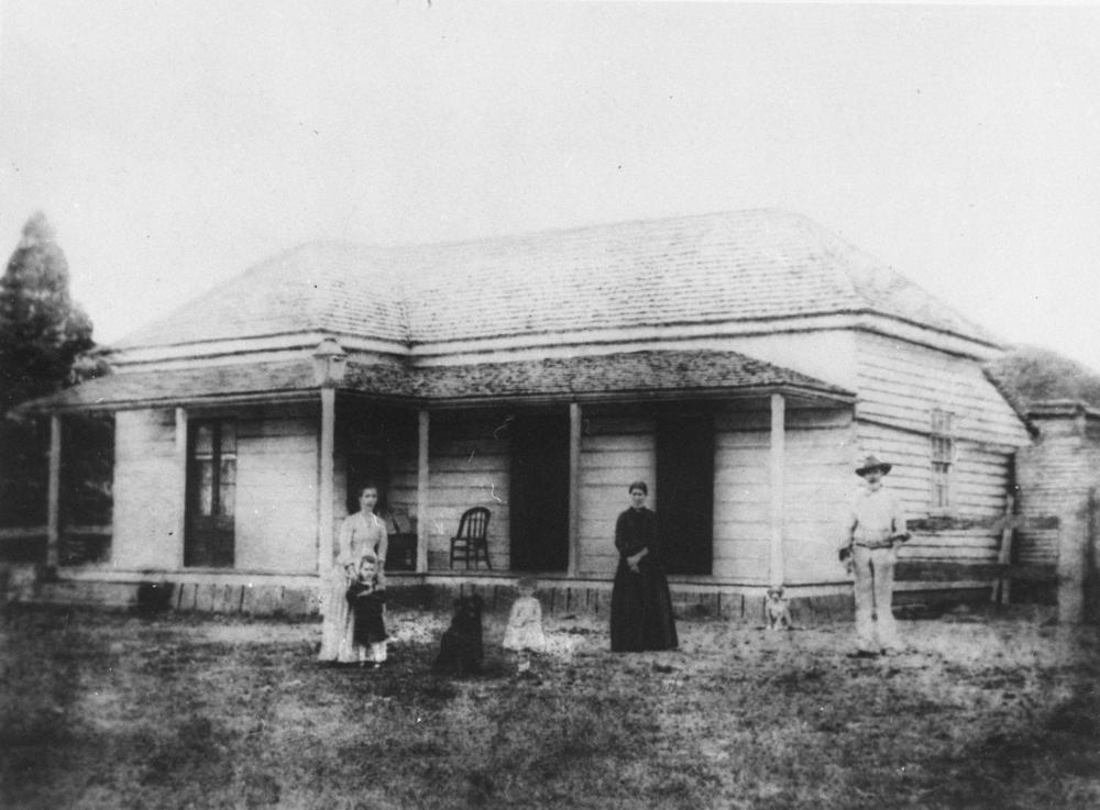 Alexander McPherson and his family outside the Glenfern Hotel, Kilcoy, 1878 Kilcoy is in Queensland's Sunshine Coast hinterland. The town is north-west of Caboolture on the D’Aguilar Highway, just north of Lake Somerset and at the base of the Conondale Range. The area was first settled in 1841 by Scottish migrants who cleared land on the upper reaches of the Sandy and Kilcoy Creeks to run beef and dairy cattle. Timber felling and milling was also important in the early development of the town, which was established in the 1890s.